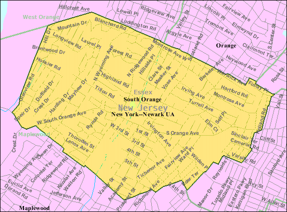 Census Bureau map of South Orange